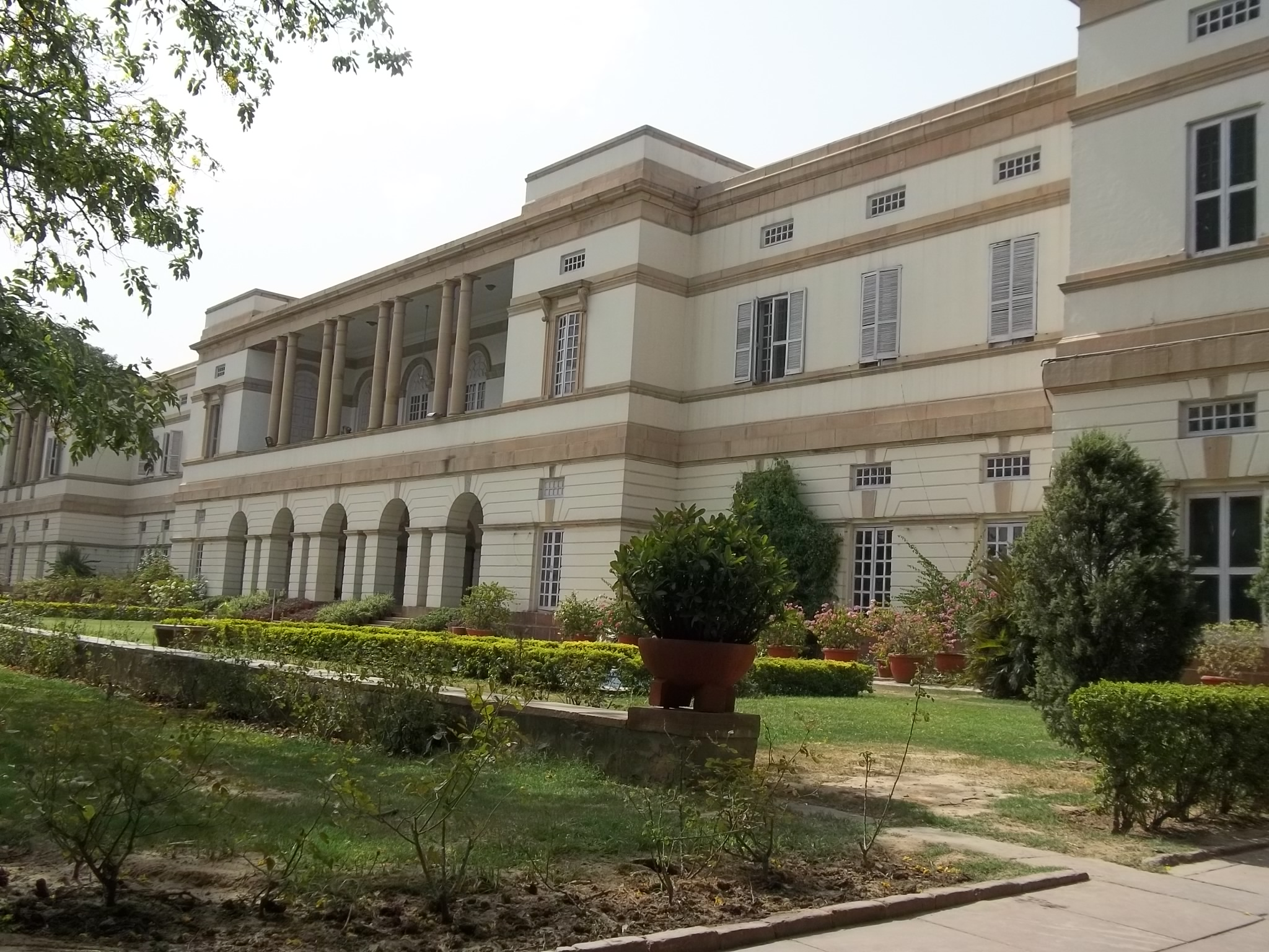 backside of teen mutri bhavan